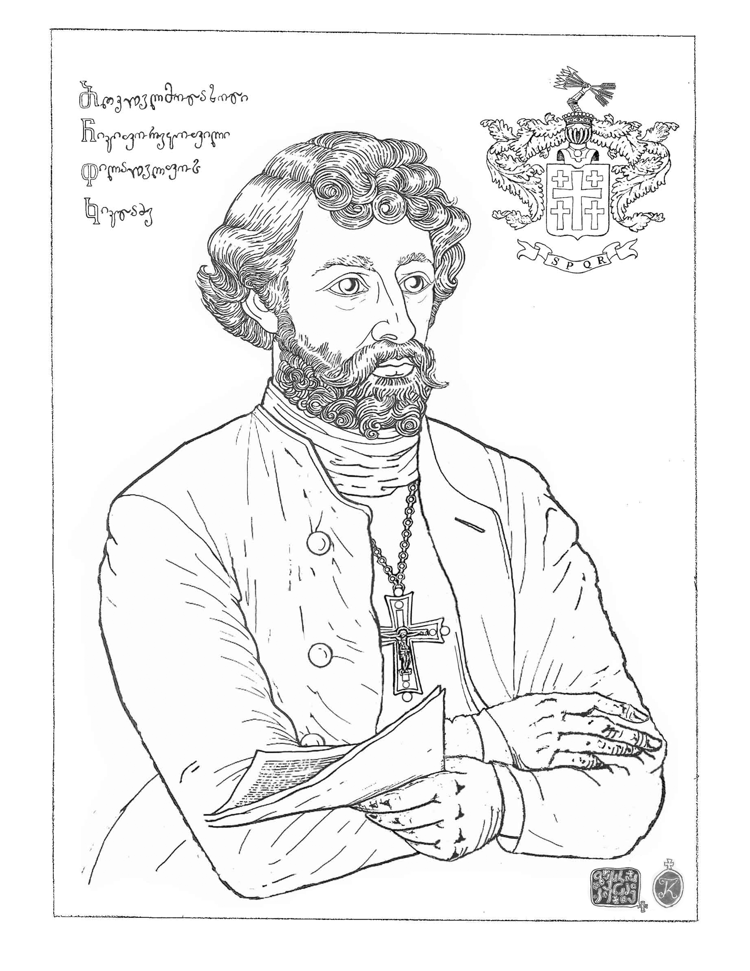 Hieromonk Nikephoros Nicholas Philadelphos Kiknadze (1793-1837) son of Baron Iohannes Kiknadze and Princess Tinatin Abashidze was the spiritual father of the nation and most active inspirator and organizer of 1832 conspiracy of Georgian nobles who plotted to reestablish Georgia’s independence from the Russian empire.